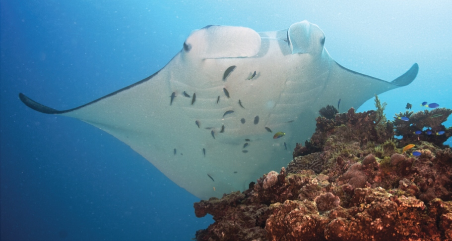 Manta alfredi at a ‘cleaning station’, maintaining a near stationary position atop a coral patch for several minutes while being cleaned by cleaner fishes.